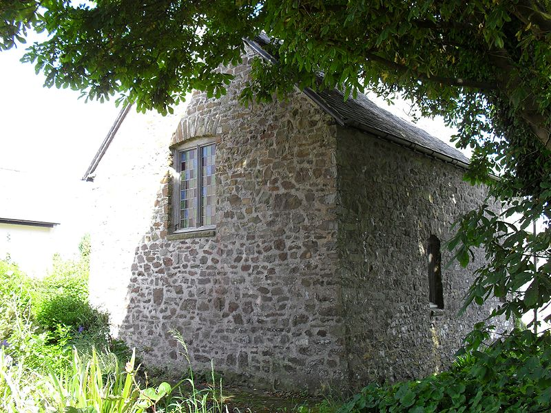 My own work